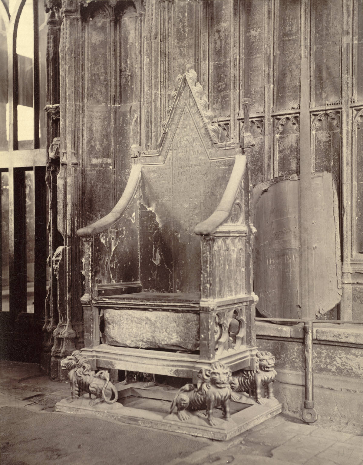 Collection: A. D. White Architectural Photographs, Cornell University Library Accession Number: 15/5/3090.00976 Title: Coronation Chair with Stone of Scone, Westminster Abbey Coronation chair date: 1307 Photograph date: ca. 1875-ca. 1885 Location: Europe: United Kingdom; London Materials: albumen print Image: 11 x 8 1/2 in.; 27.94 x 21.59 cm Provenance: Gift of Andrew Dickson White Persistent URI: There are no known copyright restrictions on this image. The digital file is owned by the Cornell University Library which is making it freely available with the request that, when possible, the Library be credited as its source. We had some help with the geocoding from Web Services by Yahoo! This image is from the Cornell University Library's The Commons Flickr stream. The Library has determined that there are no known copyright restrictions. This image was taken from Flickr's The Commons. The uploading organization may have various reasons for determining that no known copyright restrictions exist, such as: The copyright is in the public domain because it has expired; The copyright was injected into the public domain for other reasons, such as failure to adhere to required formalities or conditions; The institution owns the copyright but is not interested in exercising control; or The institution has legal rights sufficient to authorize others to use the work without restrictions. More information can be found at Please add additional copyright tags to this image if more specific information about copyright status can be determined. See Commons:Licensing for more information.No known copyright restrictionsNo restrictions